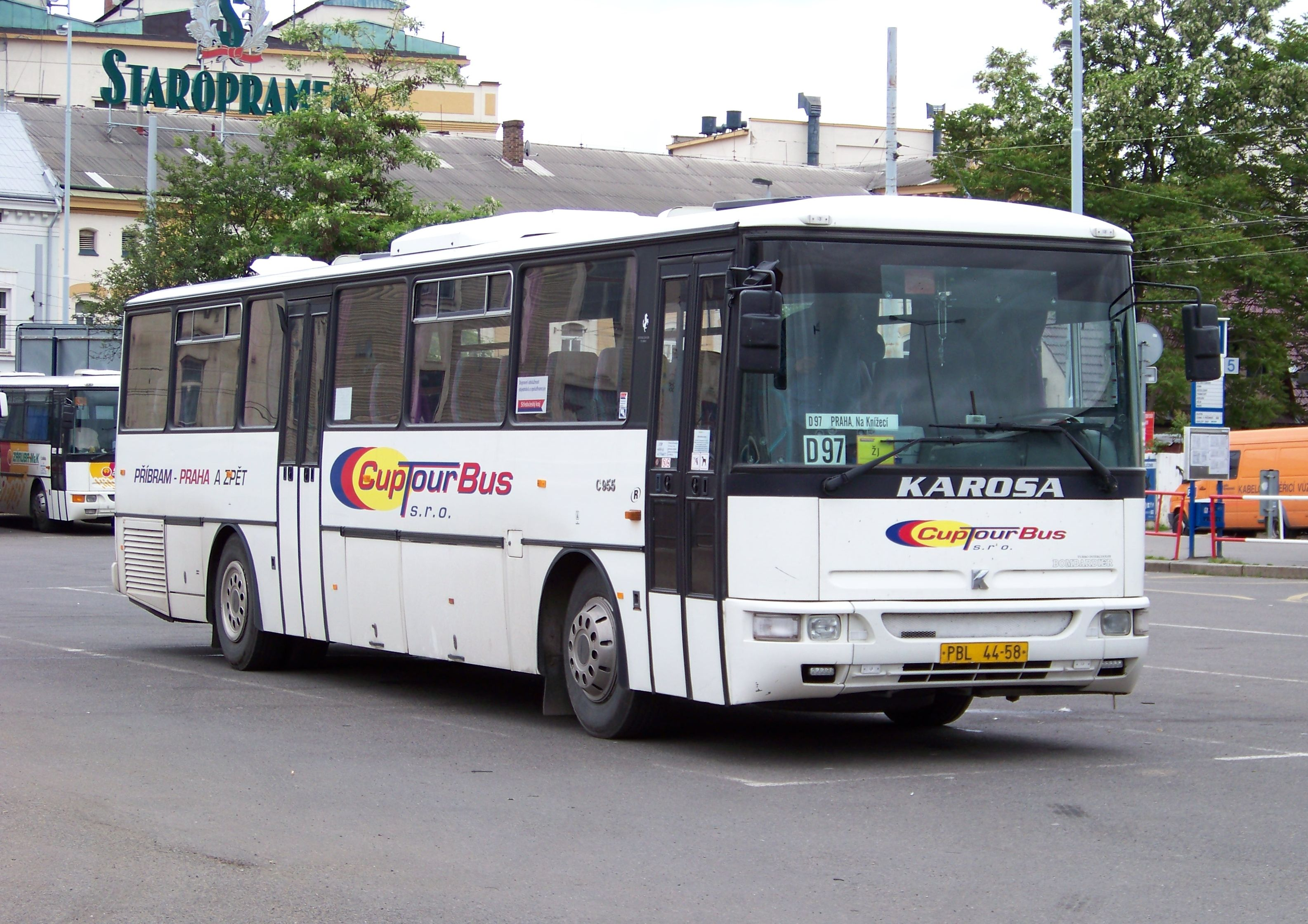 Smíchov, Prague, the Czech Republic. Na Knížecí bus station. A bus Karosa C 955 of Cup Tour Bus. - Google Maps - Google Earth